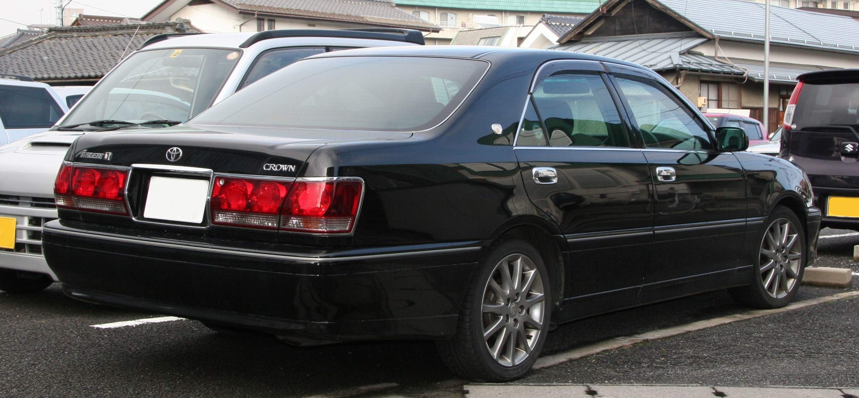 Toyota Crown